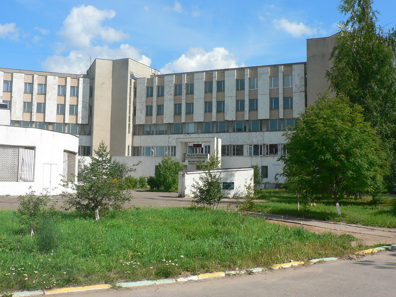 The general view of building 6 of the Technical University